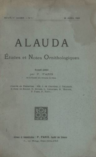 Titel Page Alauda 1 ; 1 ; 1re Série, 1929 (First edition)